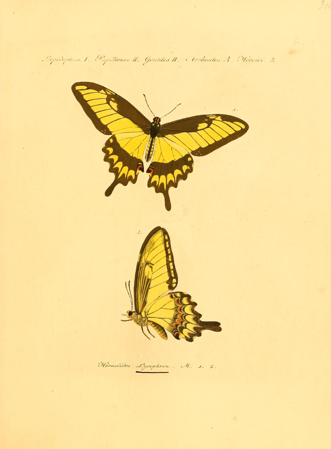 Jacob Hübner, [1821] Sammlung exotischer Schmetterlinge Vol. 2 ([1819] - [1827] Plate100 Heraclides lycophron Hübner, [1823] synonym for Papilio astyalus Godart, 1819